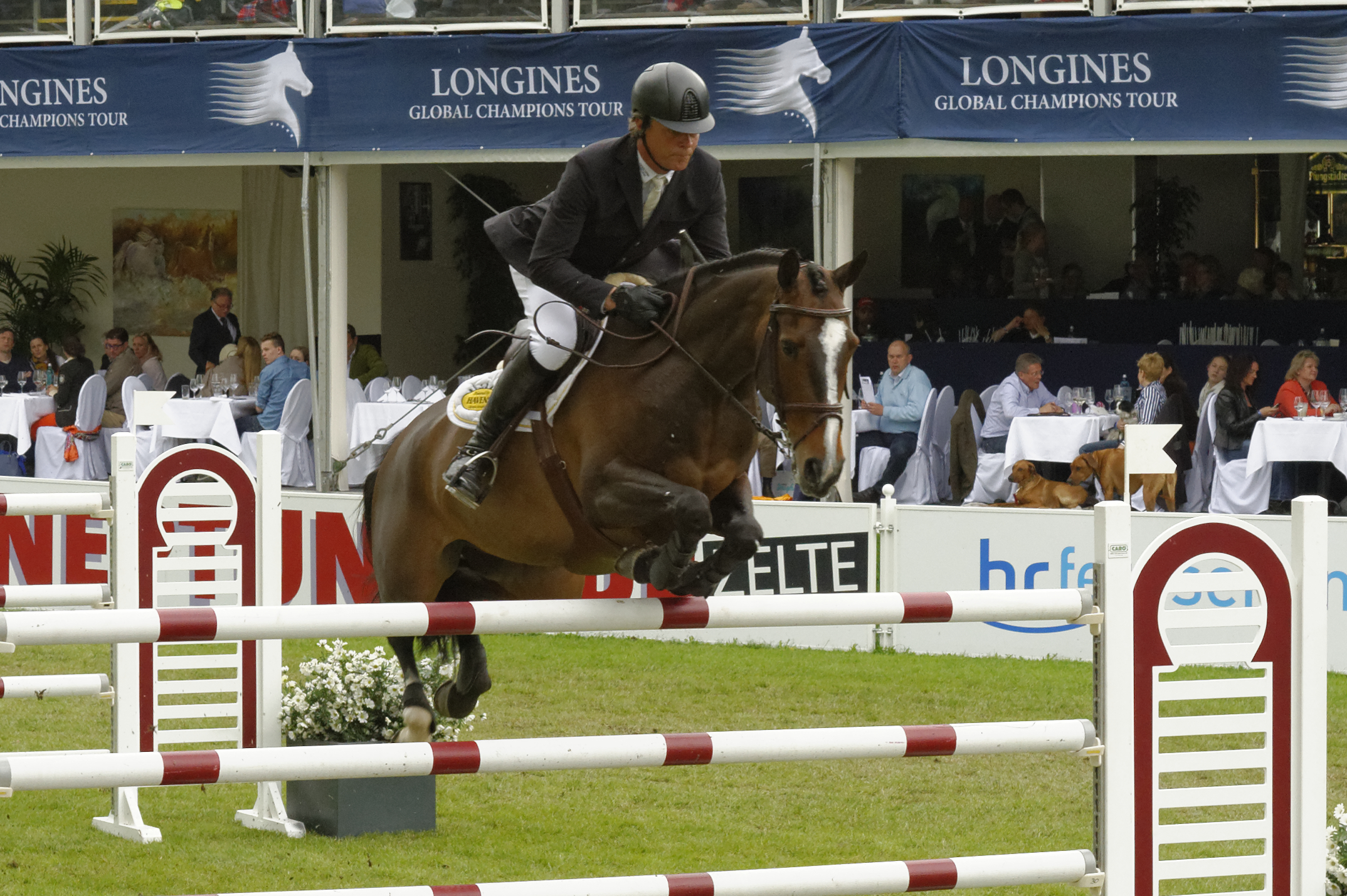 Internationales Pfingstturnier Wiesbaden 2013 The making of this document was supported by the Community-Budget of Wikimedia Germany.